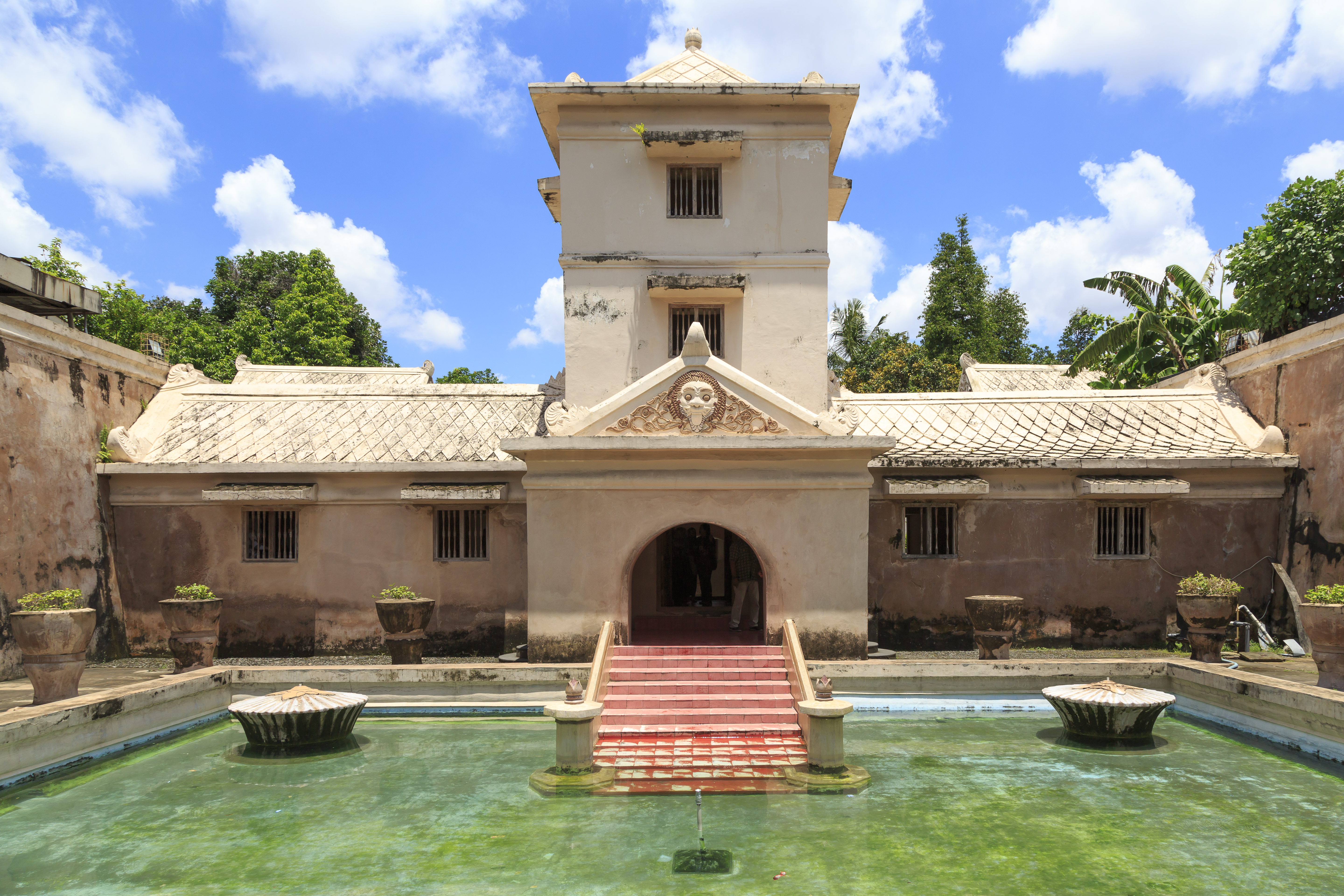 Yogyakarta, Indonesia: Bathing complex of Taman Sari.